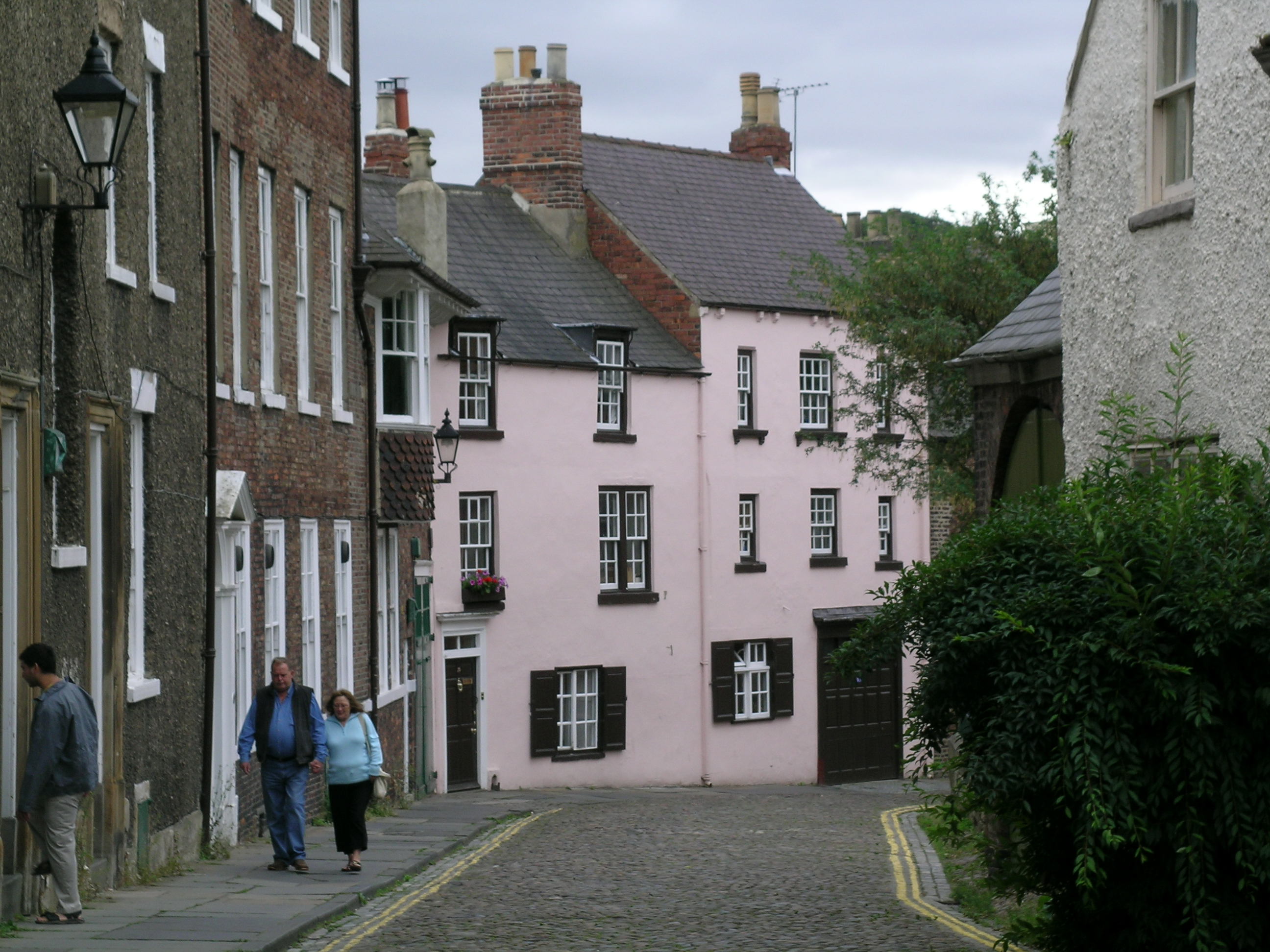 South Bailey looking towards Prebends Bridge. 12 August 2006, by Uli Harder, from